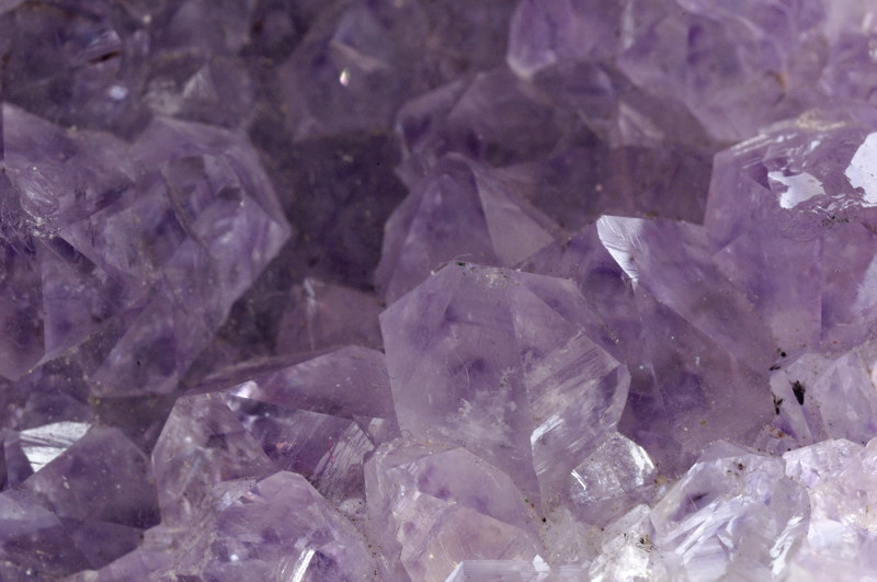 Amethyst